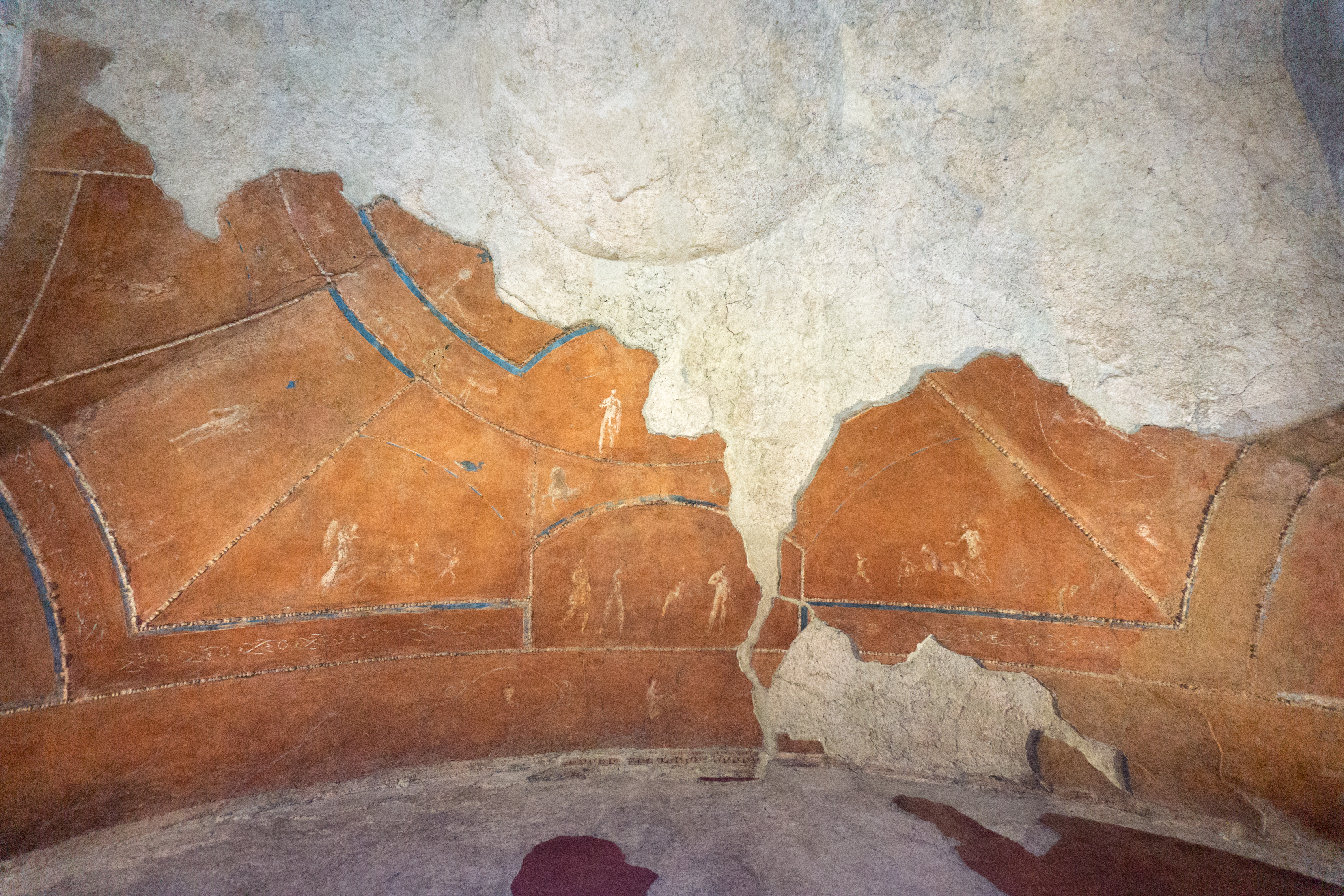 This is a photo of a monument which is part of cultural heritage of Italy.